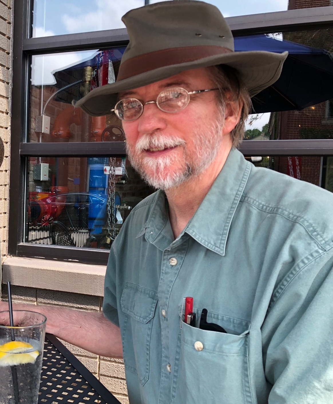 Jim Longuski